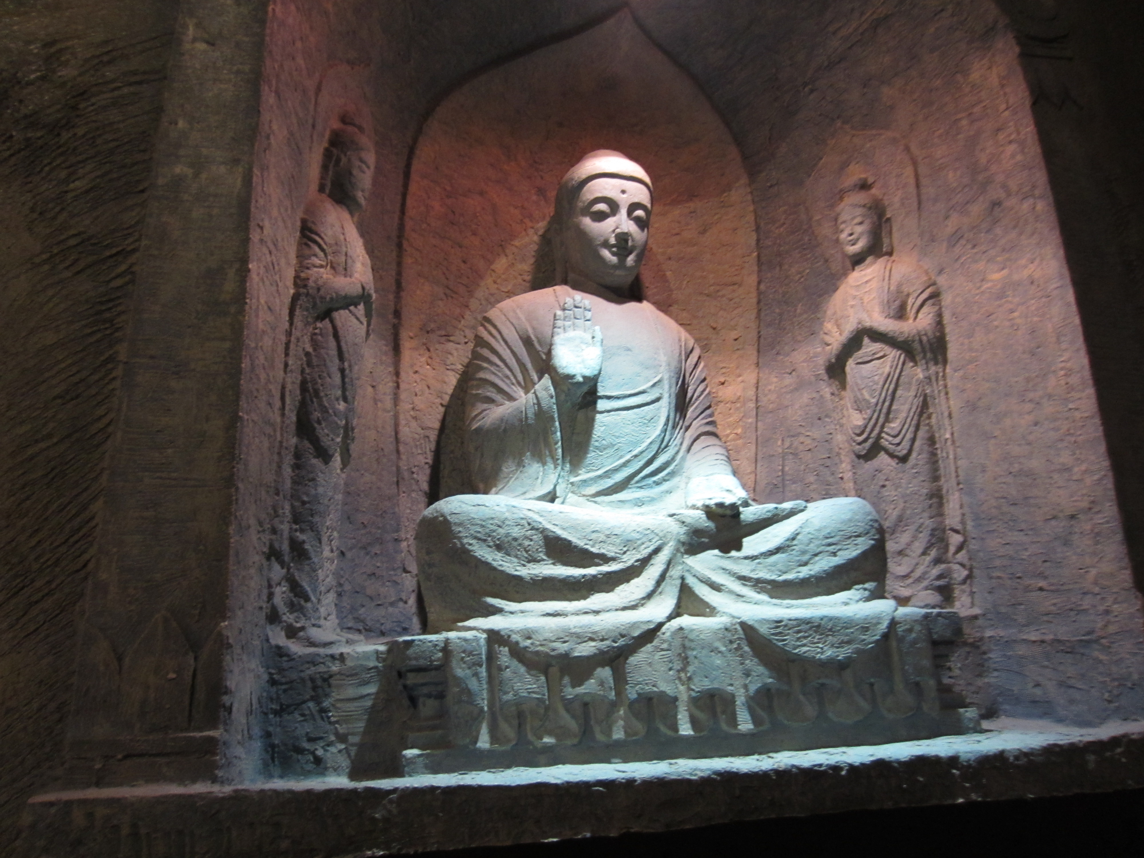 North Dynasties Buddha statues stone carvings in Handan